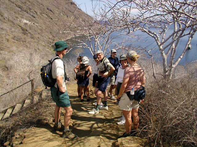 Hiking up Tagus Cove on Isabela Island in the Galapagos Islands.